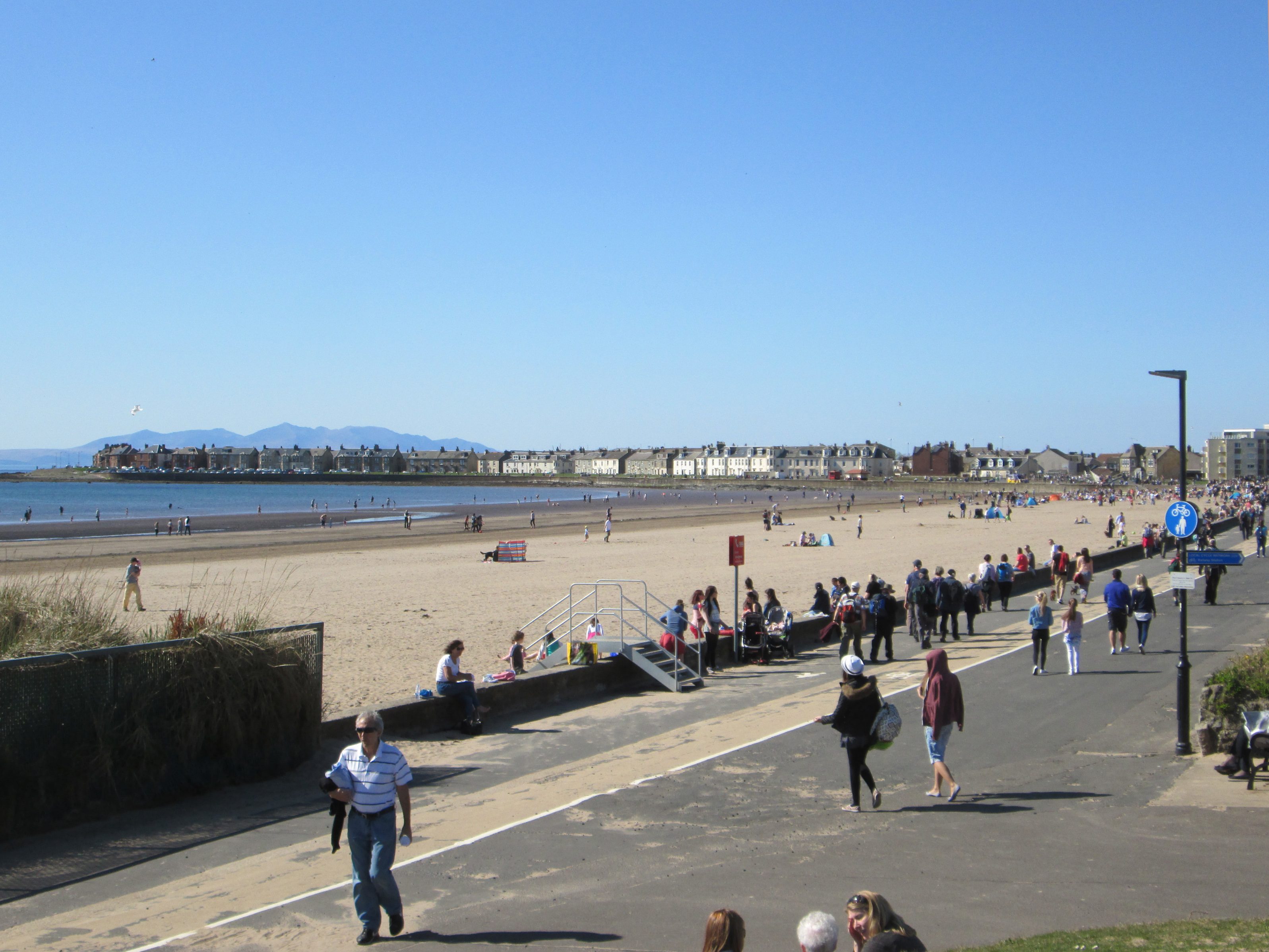 Troon esplanade, and beach on the Firth of Clyde, with the hills of the Isle of Arran visible behind the town.